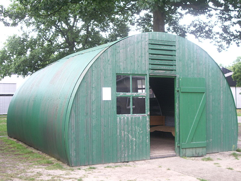 Nissen Hut